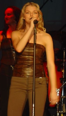 Yvonne Catterfeld